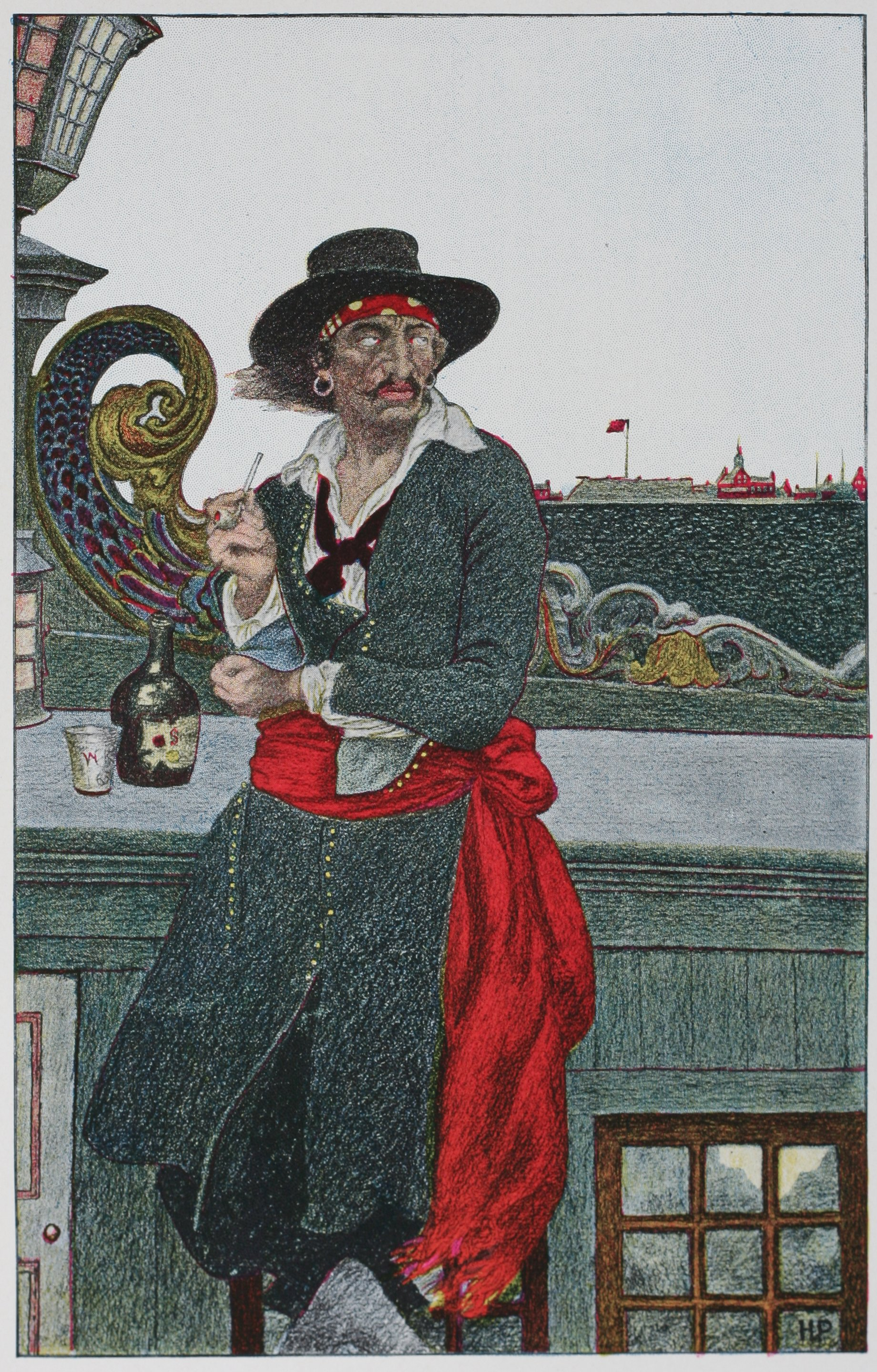 Kidd on the Deck of the Adventure Galley: illustration of William "Captain" Kidd relaxing on deck